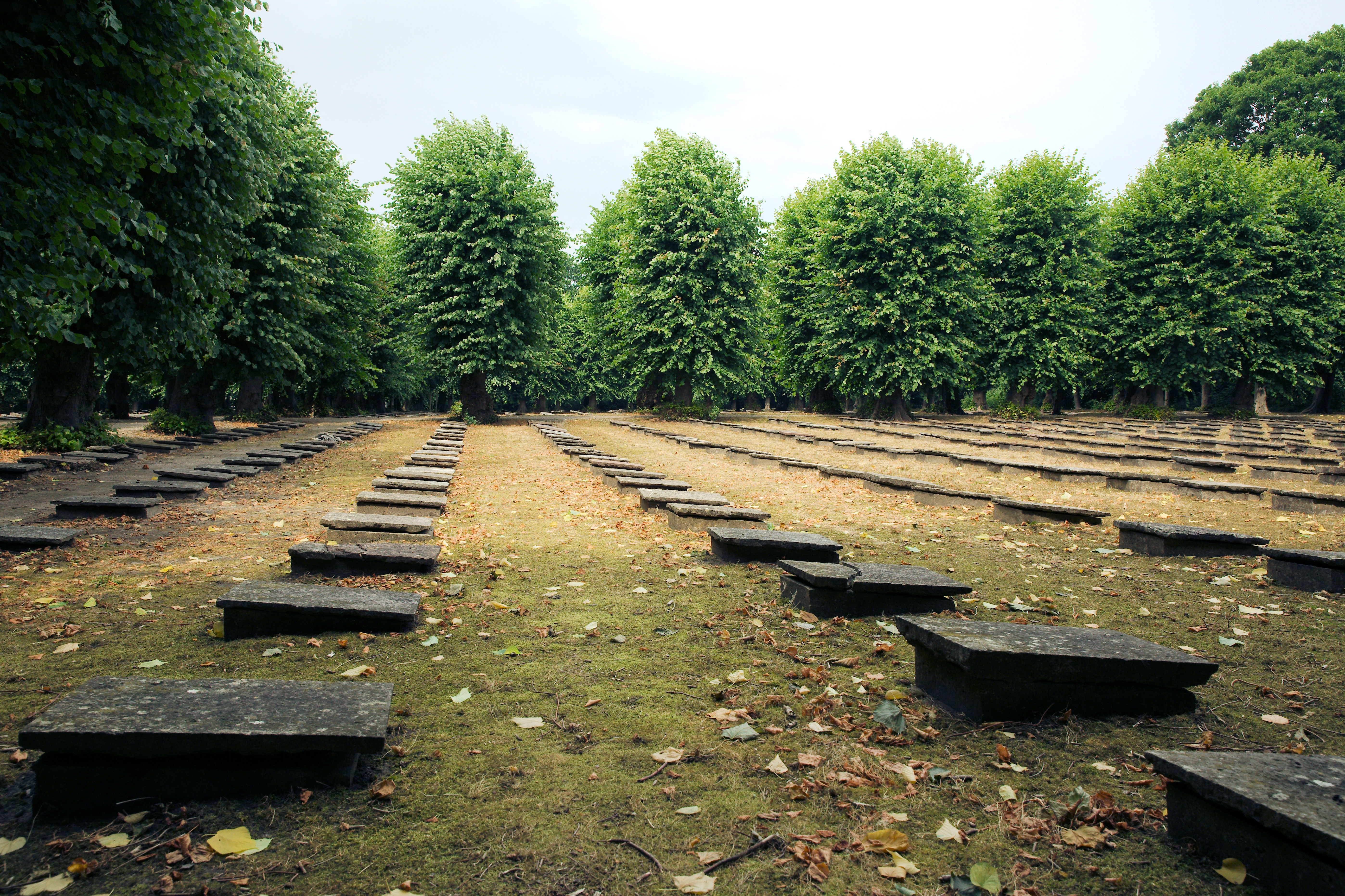 Older graves at God's Acre, Christiansfeld, Denmark